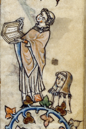 Detail of marginal image of a monk holding a prayerbook and a woman's torso behind him.